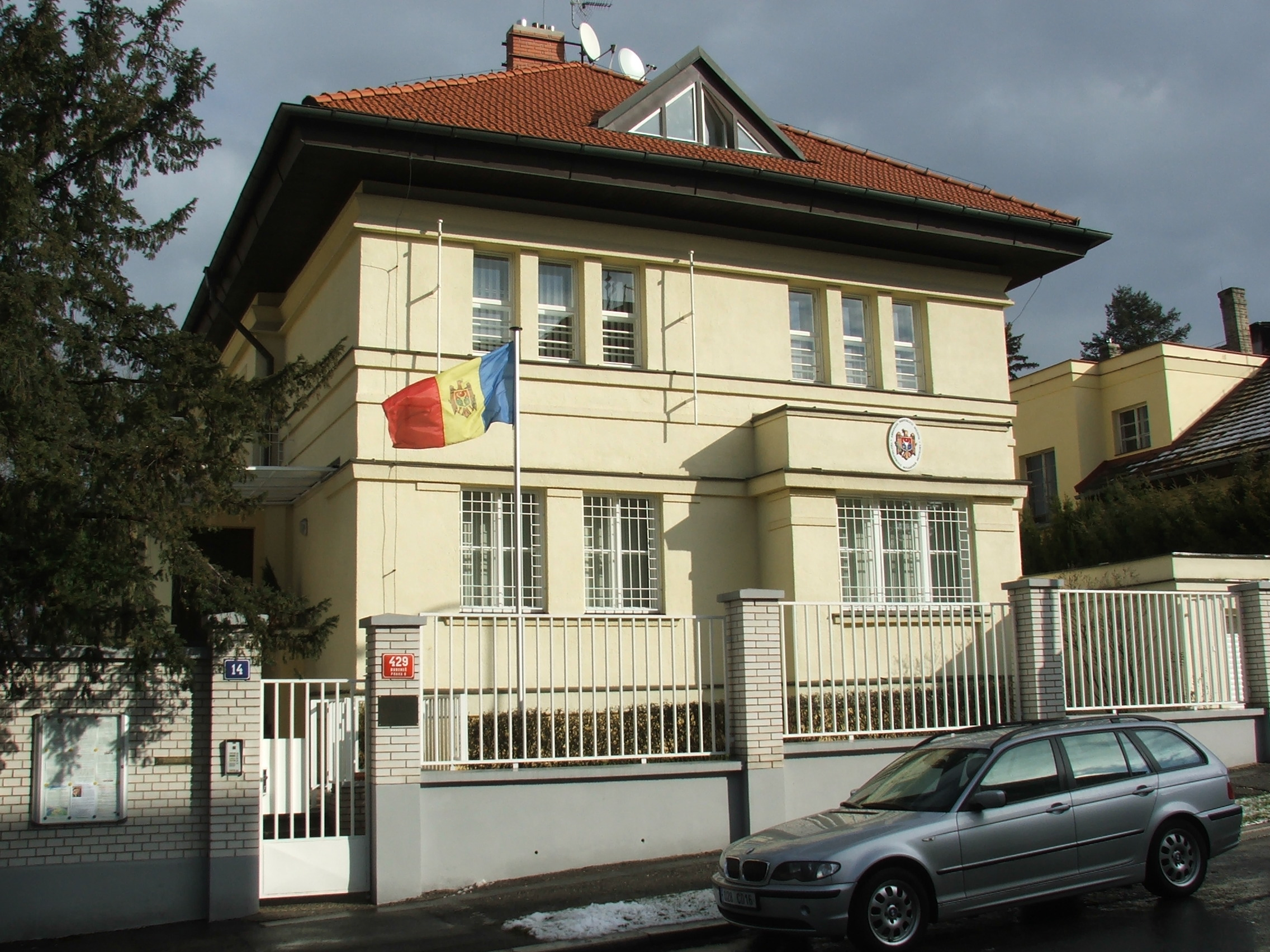 Embassy of Moldova in Prague - Bubeneč, Czechia.